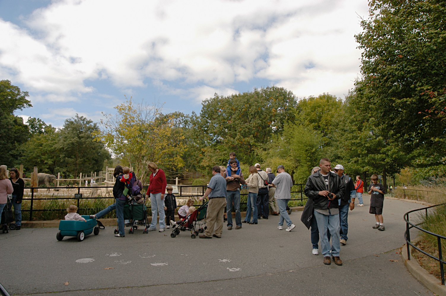 The Zoo in Washington, DC. This shot is of the Elephant display.